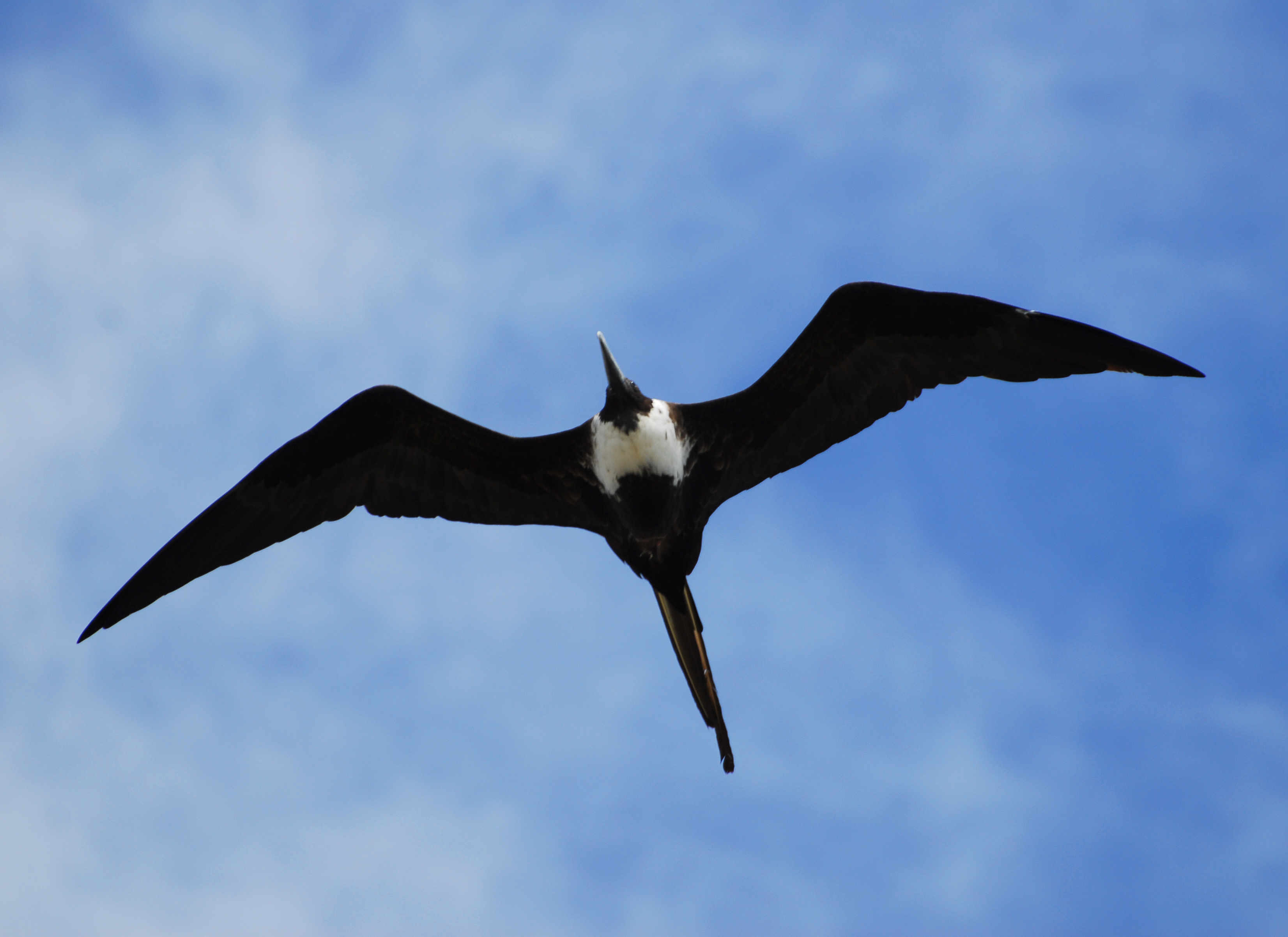 Photo by Matt Edmonds. Female Magnificent Frigatebird hovering over the Gulf of Mexico off St. Petersburg, FL 2007.